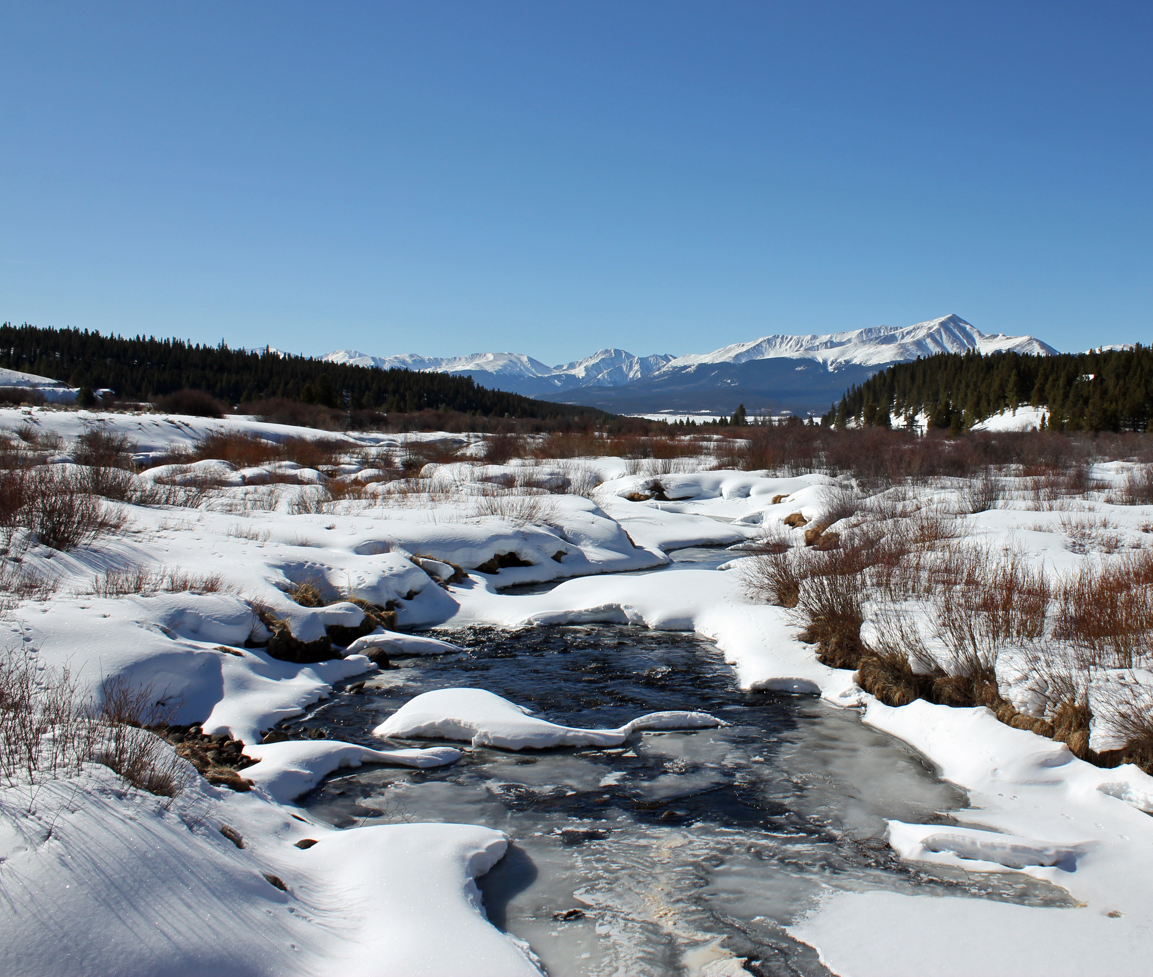 Tennessee Creek, just south of Lake County Road 9, near Leadville, Colorado, just before it joins the East Fork Arkansas River to form the Arkansas River. The mountain in the background is Mount Elbert.